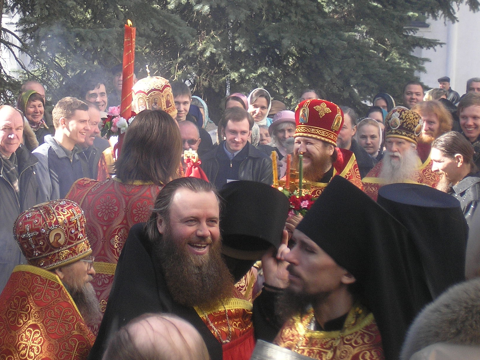 At a stop for reading the Gospel and blessing with holy water during the Pascal procession on Bright Tuesday (Easter Tuesday) at the Trinity-Sergius Monastery in Sergiev Posad, Russia